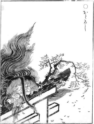 Otoroshi (おとろし, a hairy creature that perches on the gates to shrines and temples) from the Gazu Hyakki Yakō (画図百鬼夜行)